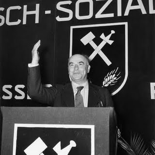 Otto Strasser giving a speech to his newly formed party, the German Social Union, a year after his return to Germany.